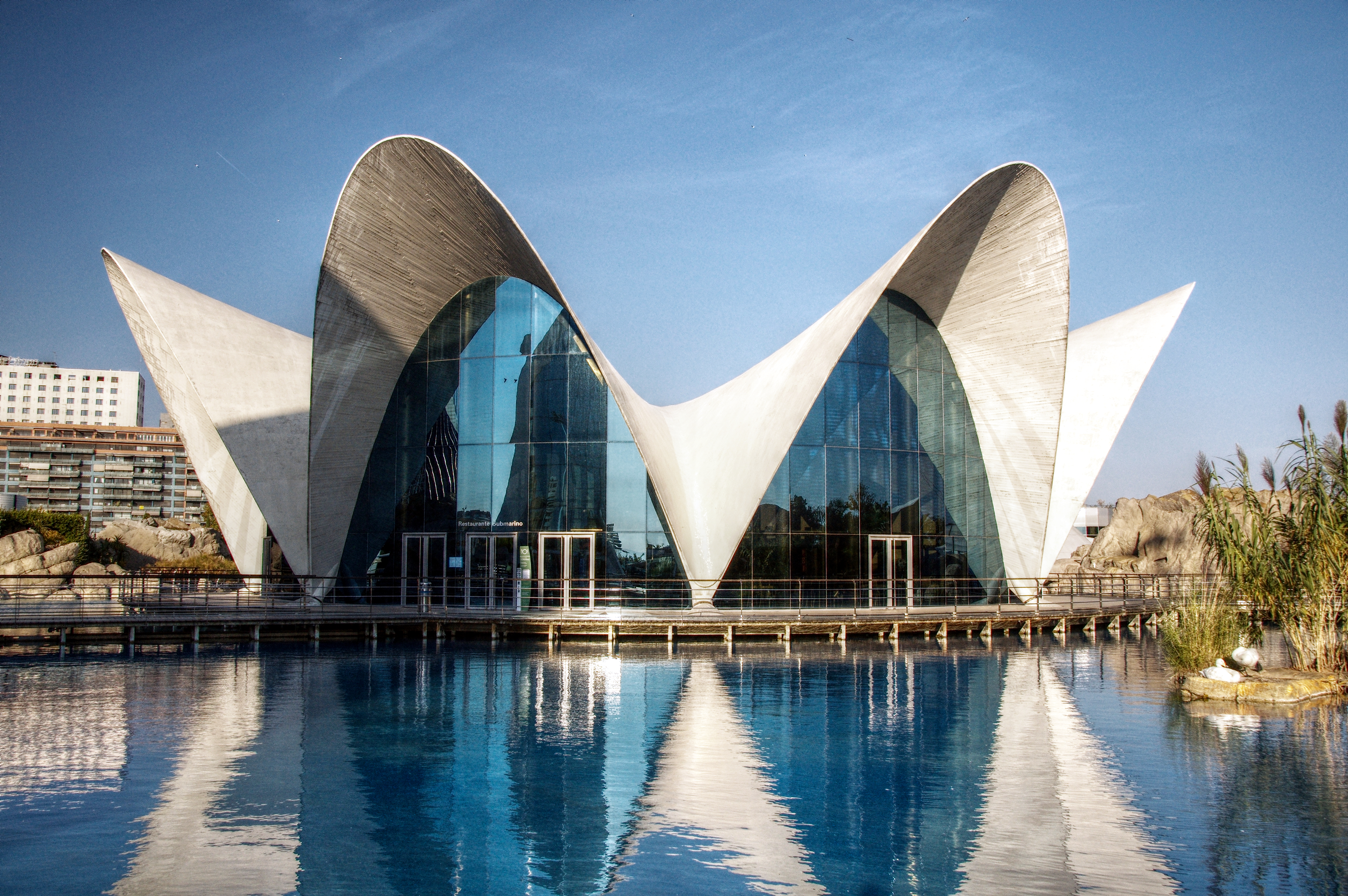 L'Oceanografic at the City of Arts and Sciences in Valencia (Valencian Community, Spain).